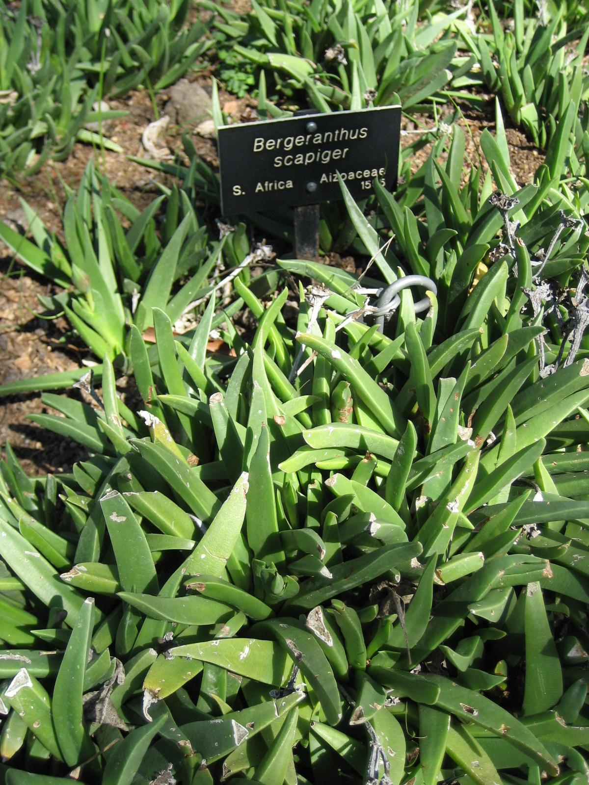 Photographed at Huntington Gardens (Los Angeles) in March